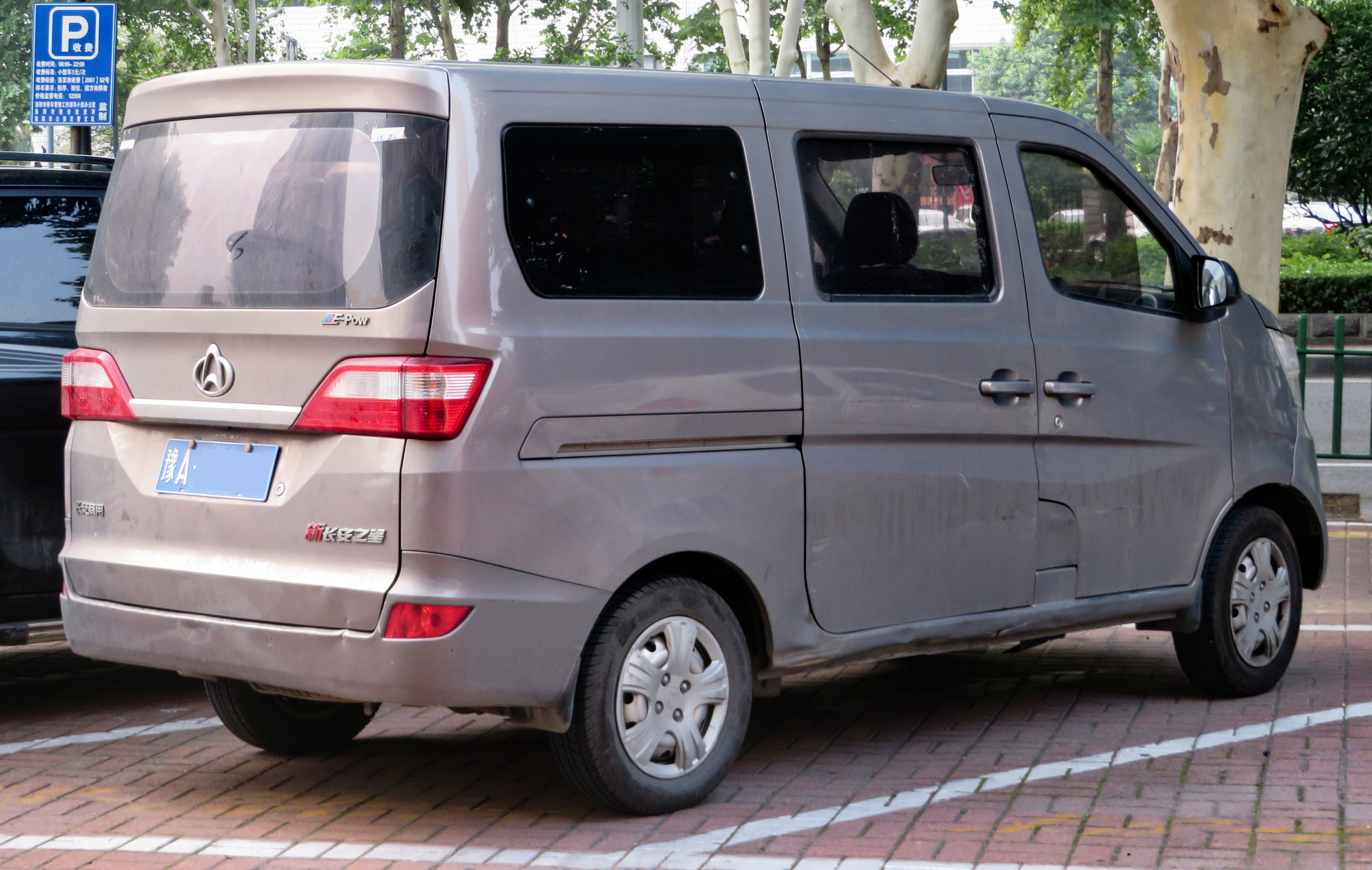 A 2016 Chang'an (Chana) Xin Chana Star photographed in Xigong District, Luoyang, Henan province, China